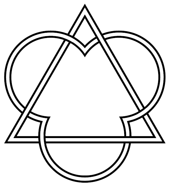 An architectural trefoil combined with an equilateral triangle (interlaced version). A traditional Christian Trinitarian symbol.